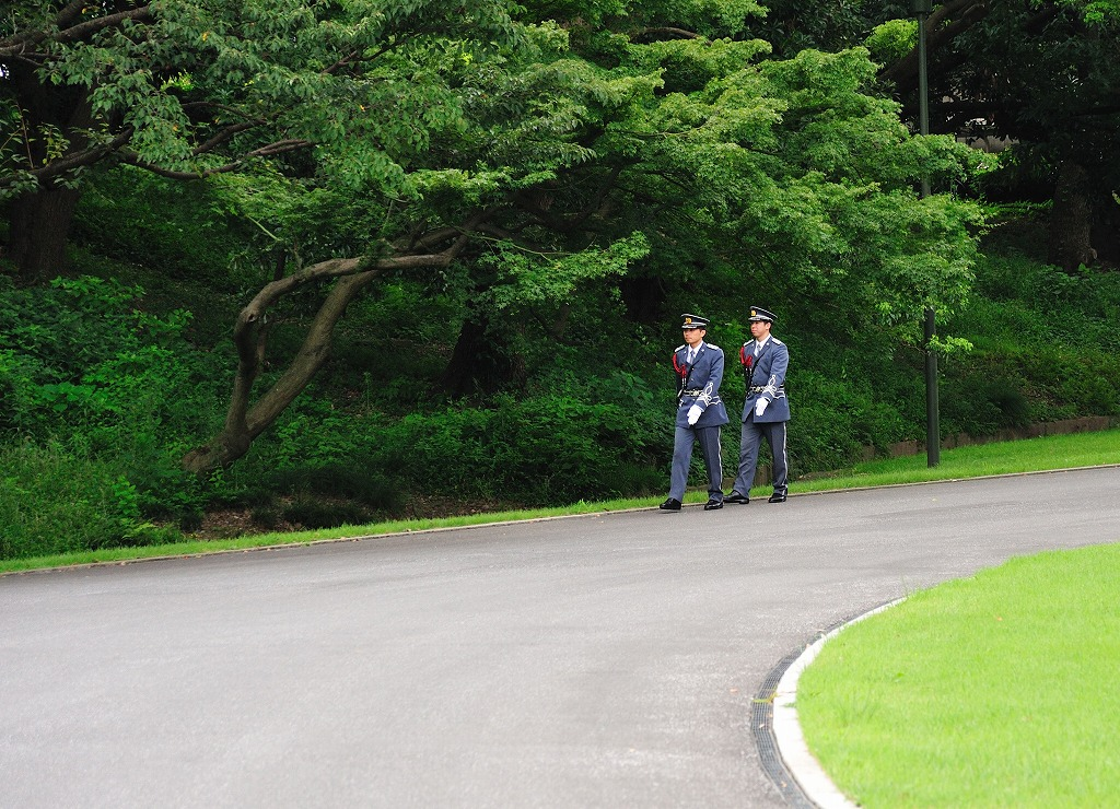 Japanese Imperial Guards for the Gate.